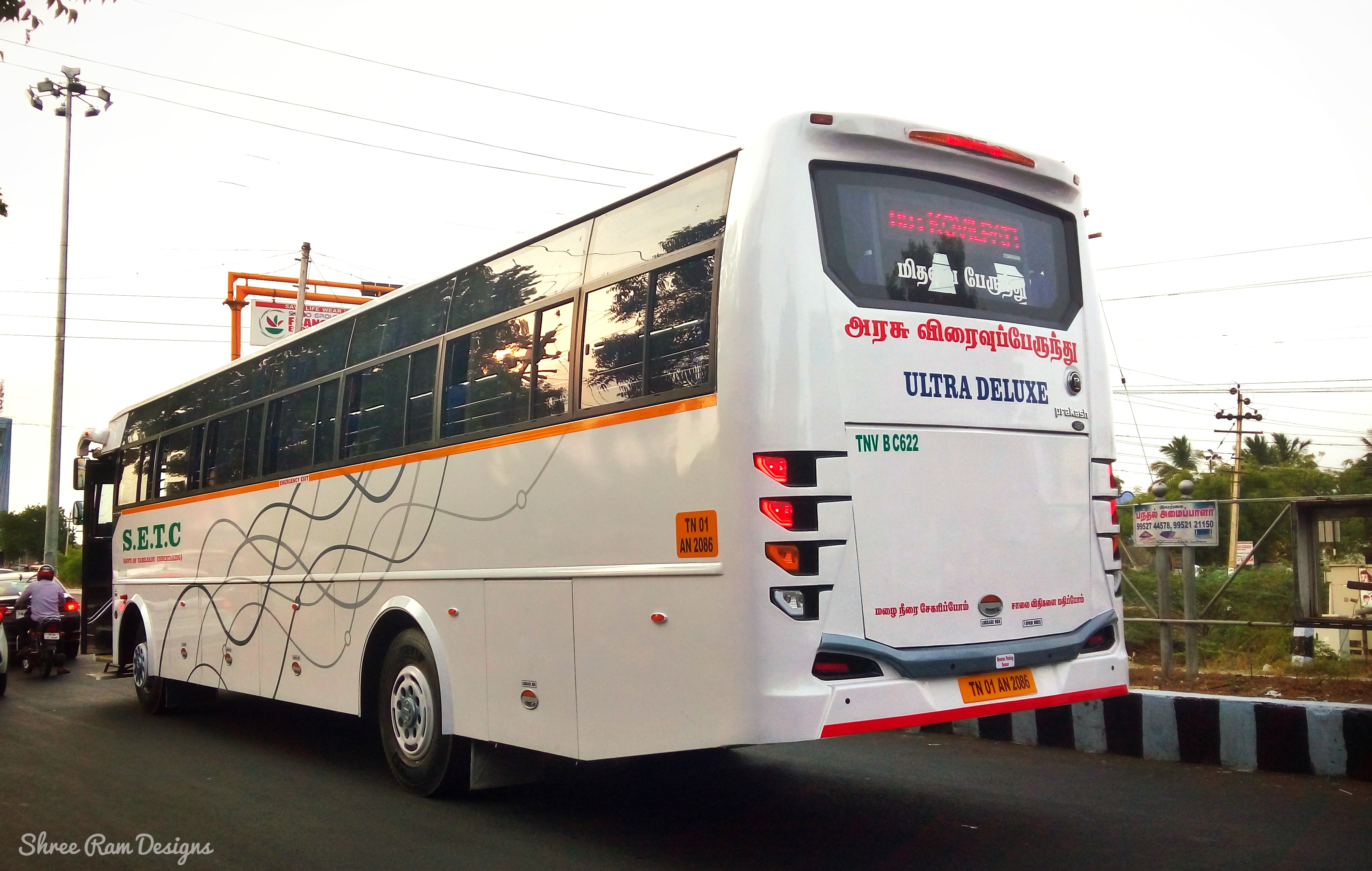 Tirunelveli to Tirupathi Interstate Bus